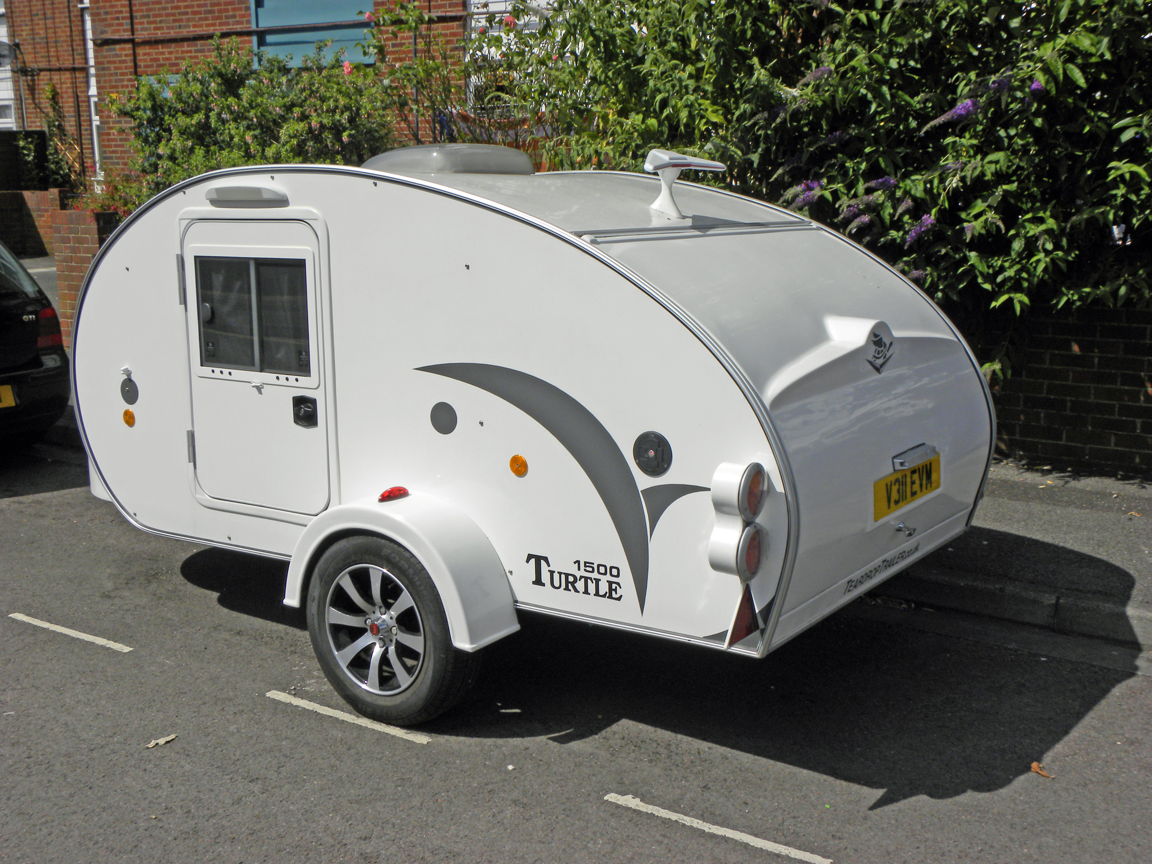 Turtle 1500 Teardrop Trailer